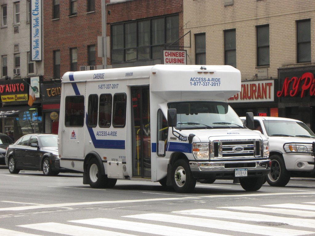 An MTA Access-A-Ride van travels in the vicinity of New York Penn Station.